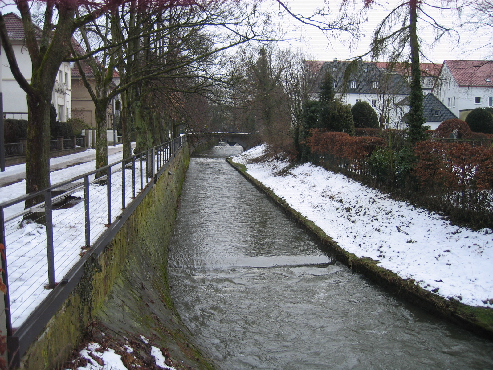 in Herford, District of Herford, North Rhine-Westphalia, Germany.